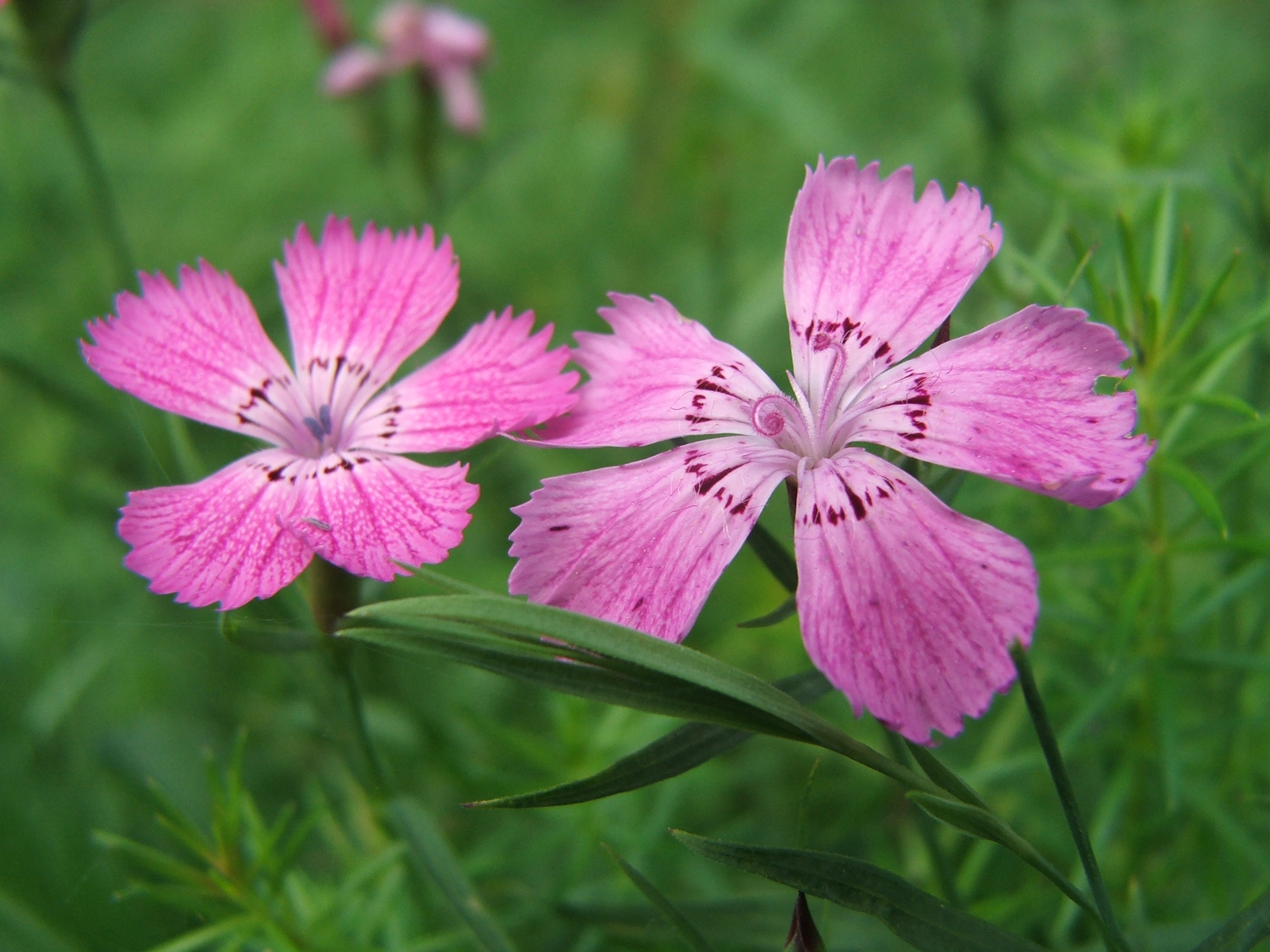 Dianthus collinus subsp. glabriusculus